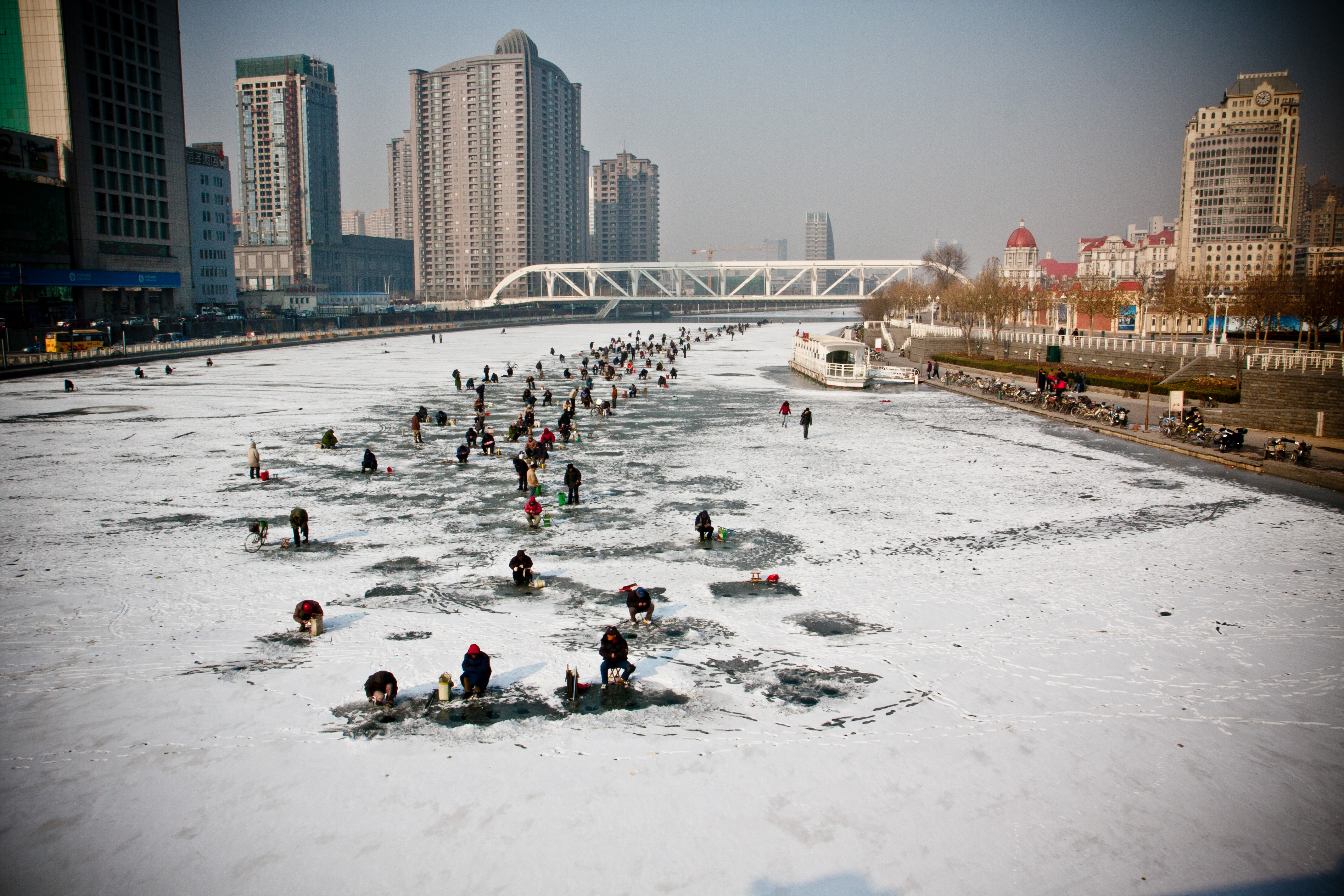 Further down the river, many more ice fisherman are out